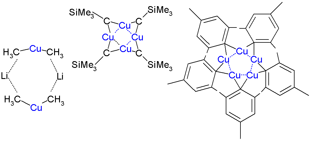 Organocopper Aggregates